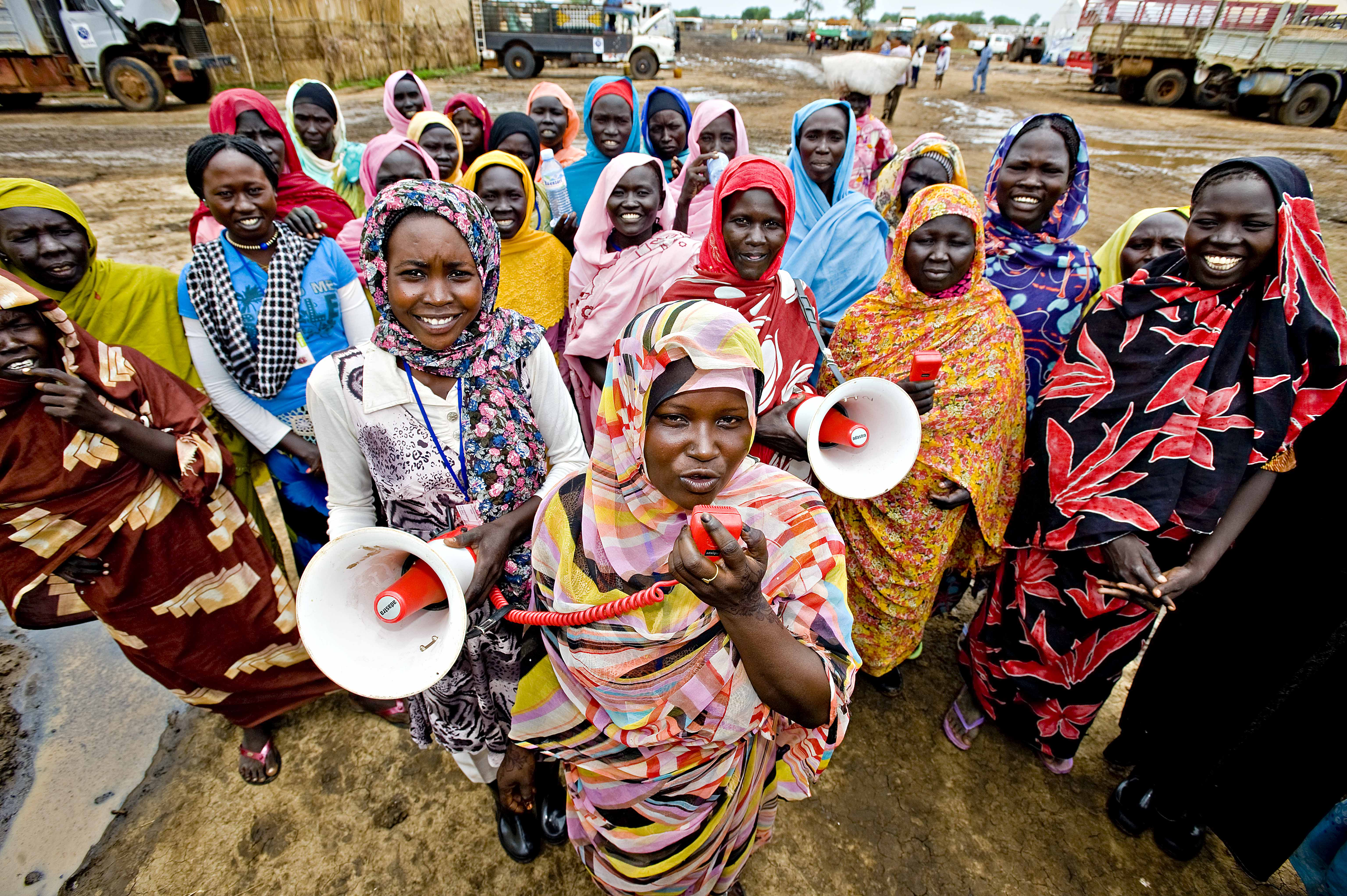 The right to be heard is the foundation of all that Oxfam believes and does. When people have the power to claim their basic human rights, they can escape poverty – permanently. We aim to support poor and marginalized people to gain control over their own lives by exercising their right to political participation, freedom of expression and information, freedom of assembly and access to justice. We help people to demand and exercise their rights, hold their governments and the private sector accountable, and get their issues onto public policy agendas. Photo: John Ferguson/Oxfam